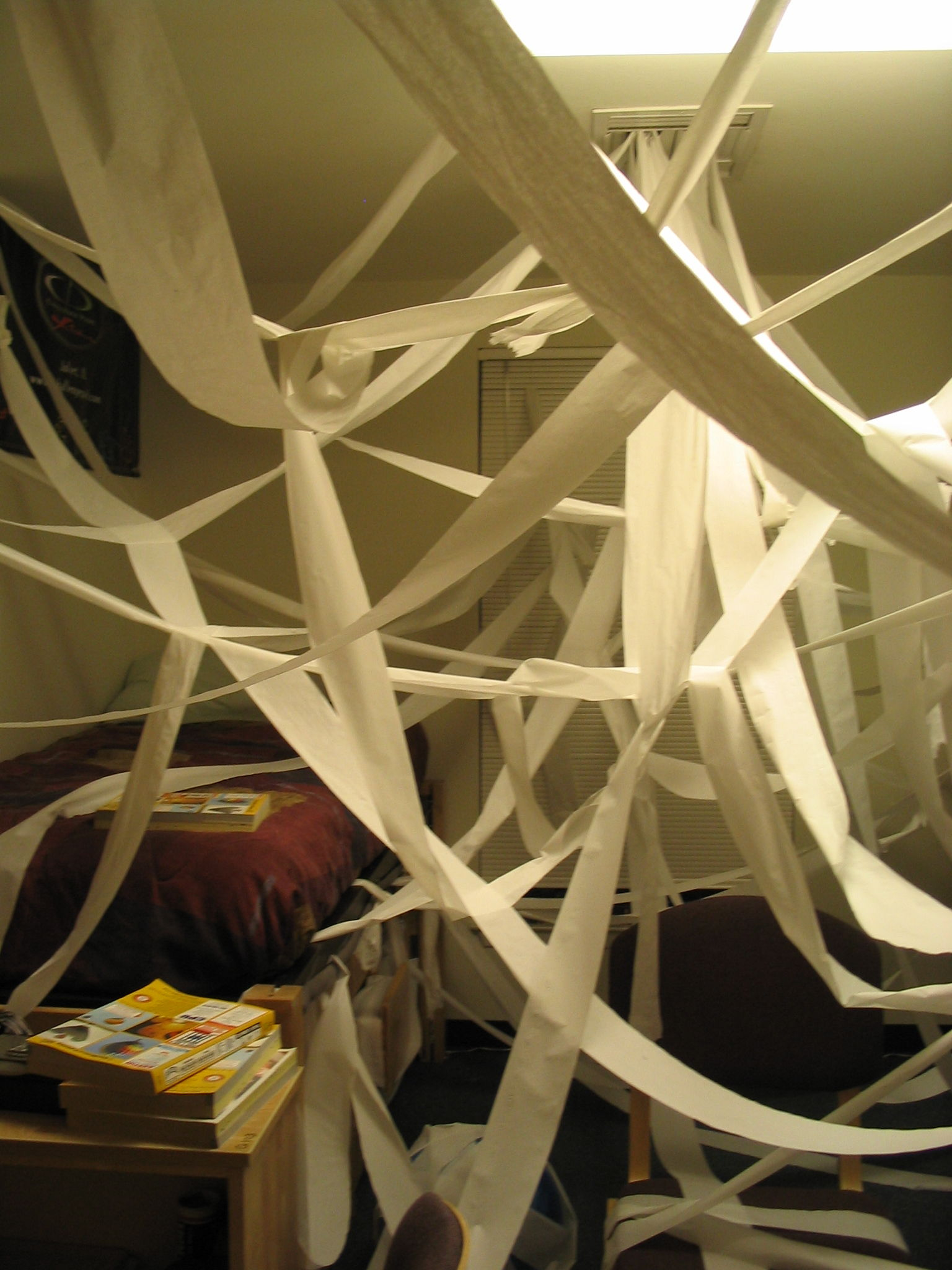 A room filled with toilet paper as a practical joke.